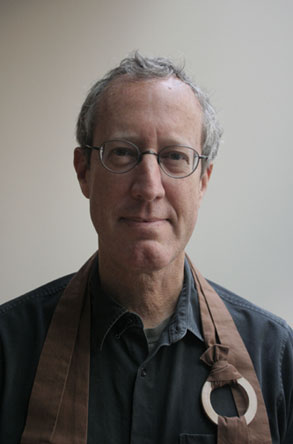 Photograph of Barry Magid.